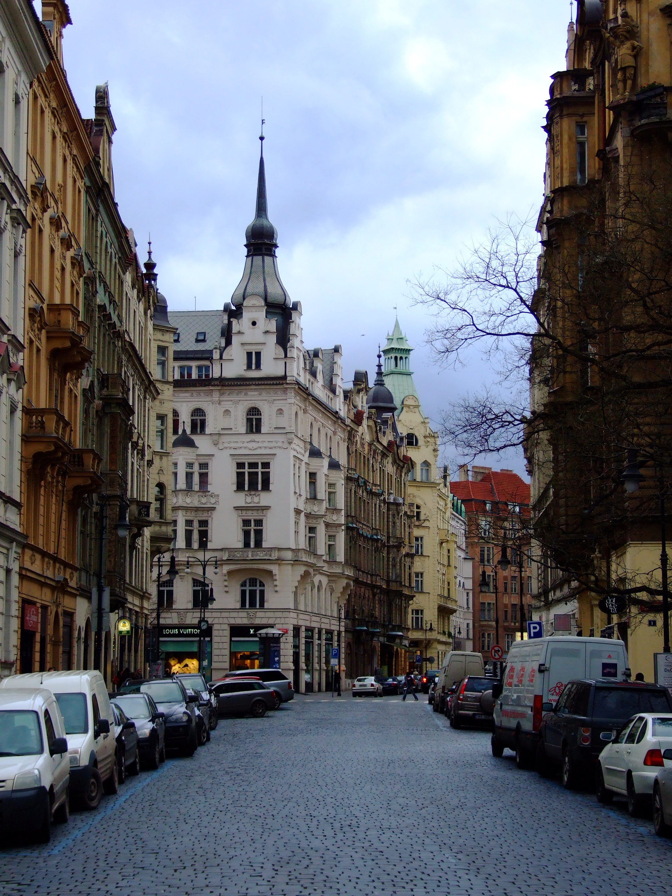 Various buildings in Prague-Old Town. This is the part, which was rebuilt in 19th century - old jewish town was destroyed and then built again